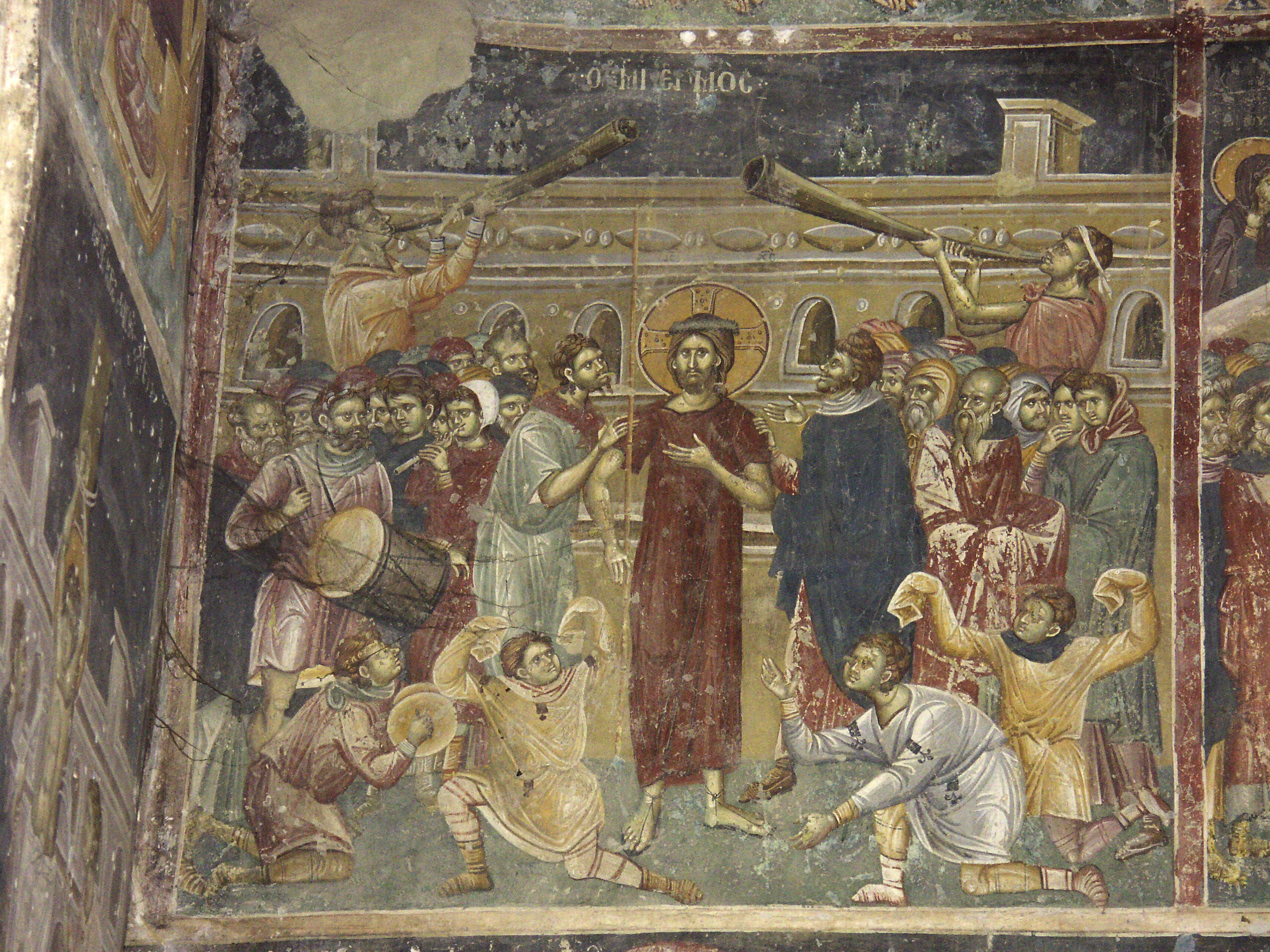 Frescos in St. George Church in Staro Nagoričane, Macedonia